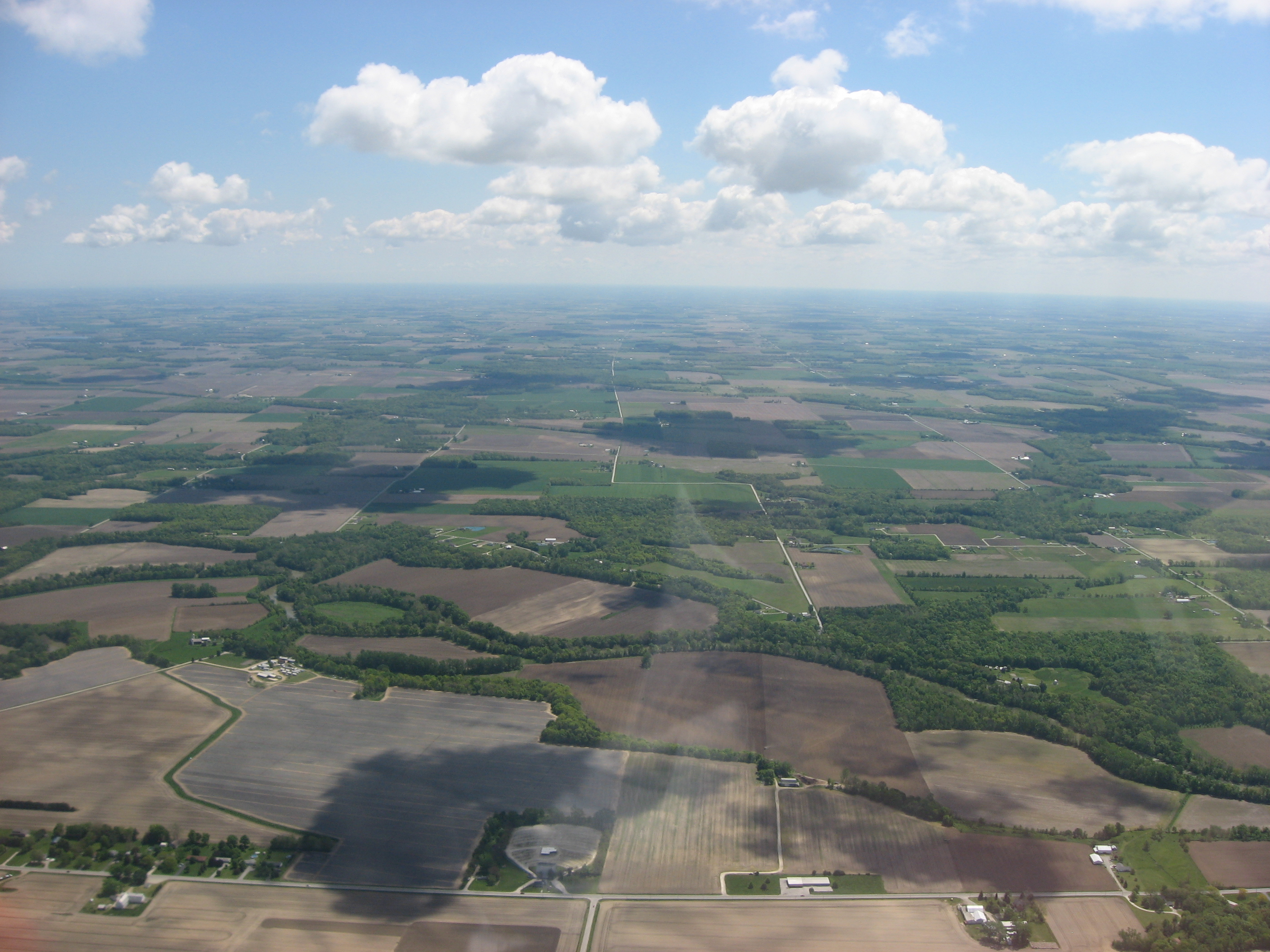 Aerial view of southwestern Pleasant Township, Seneca County, Ohio, United States, north of Tiffin. The Sandusky River is visible as the long, curving line of trees that extends right to left; the small grassy oval surrounded by trees (on the left side of the picture) is Abbots Island. Picture taken from a Diamond Eclipse light airplane at an altitude of 3,500 feet MSL and a bearing of approximately 90º. Horizontal road at bottom of picture is State Route 53.